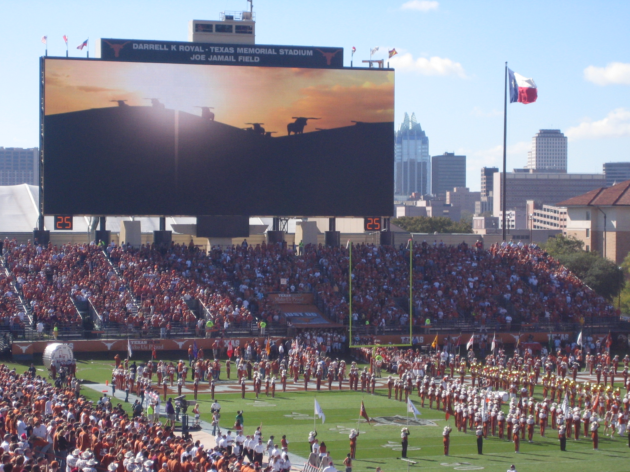 Godzillatron as the players take the field. The Godzillatron scoreboard at Darrell K. Royal-Texas Memorial Stadium, home of the Longhorns, with the Austin skyline in the background (2006).